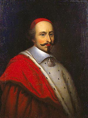 Jules Cardinal Mazarin succeeded Richelieu in office.